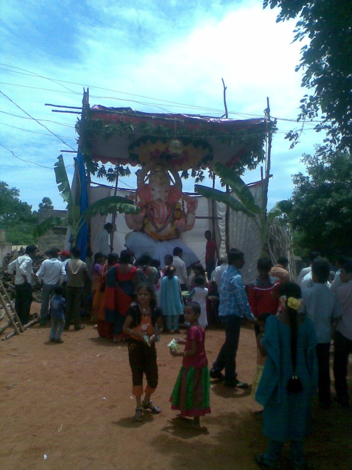 Vinayakachavithi